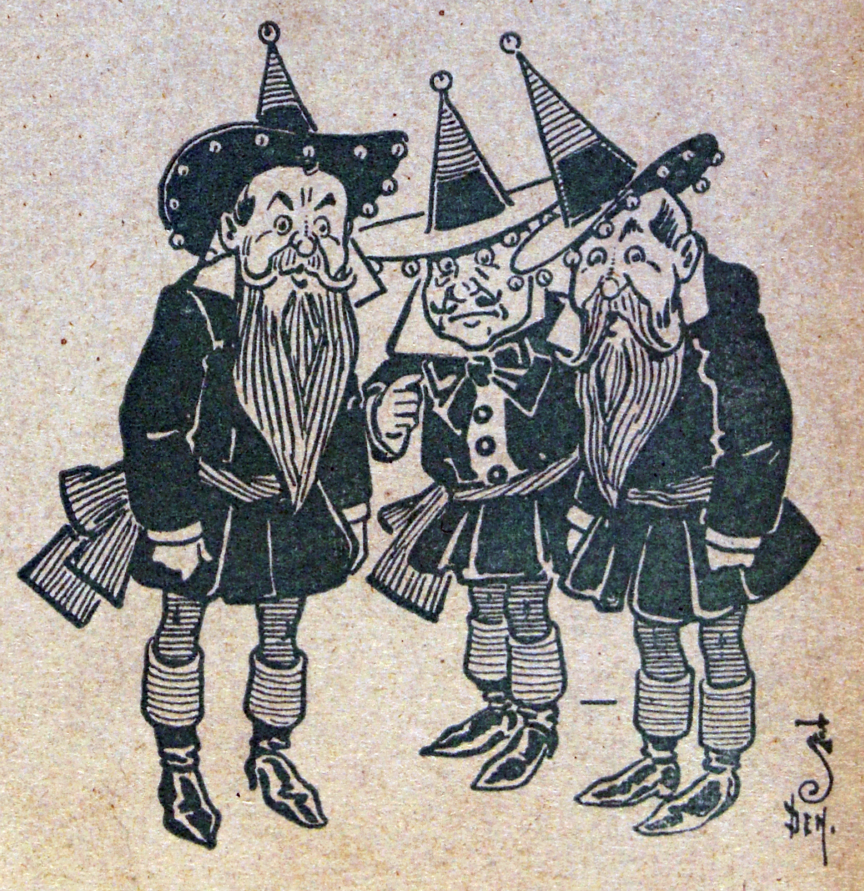 A drawing of Munchkins, inhabitants of the eastern region of the Land of Oz.